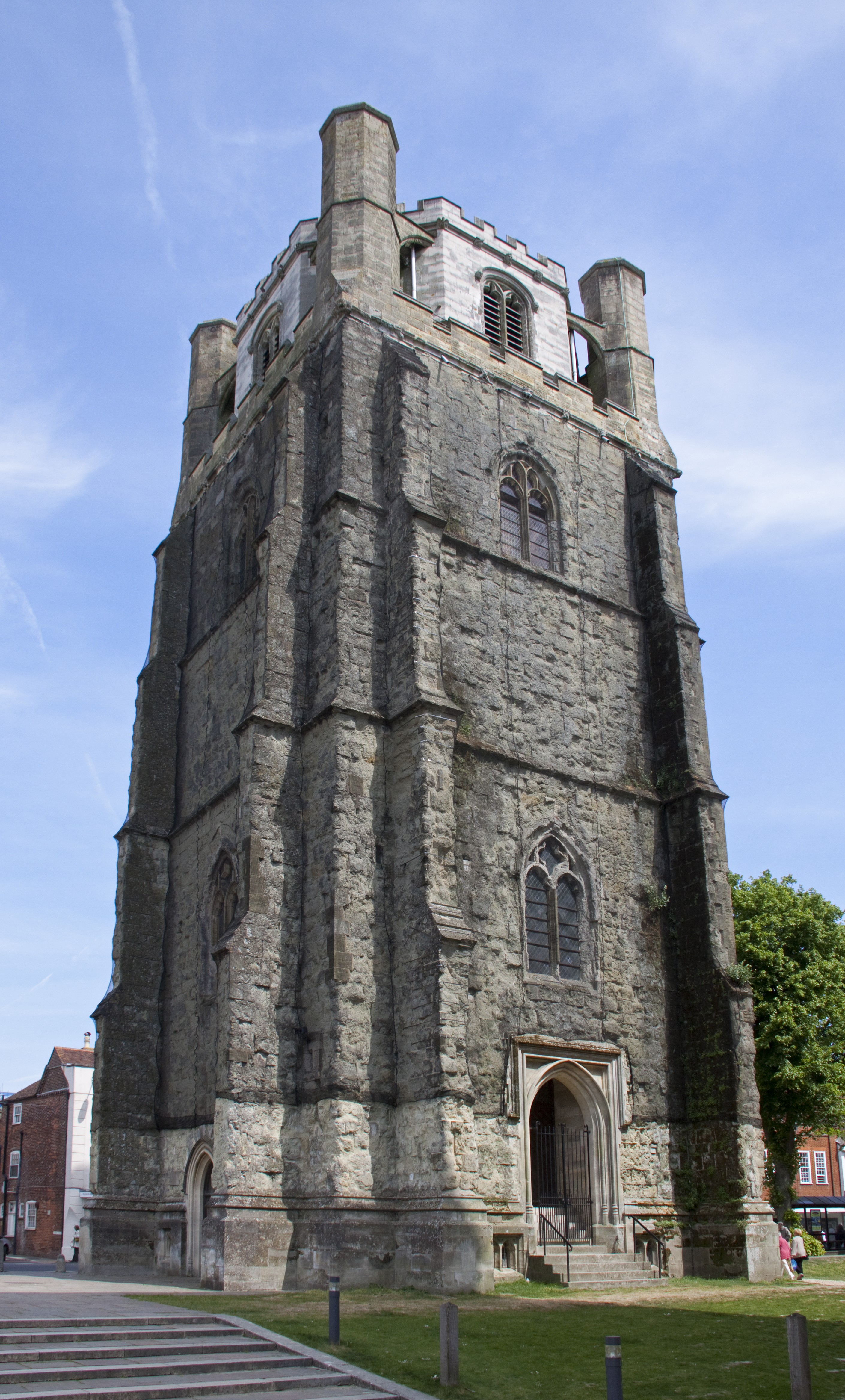 Bell tower at Chichester Cathedral, West Sussex, England